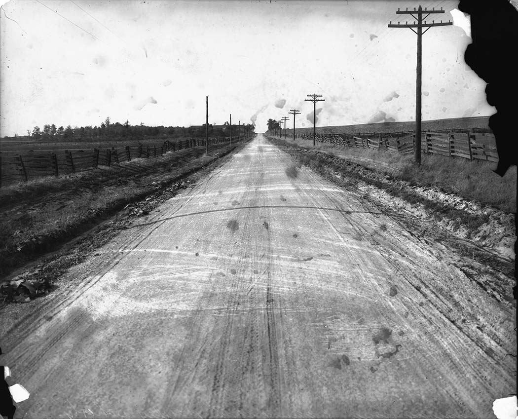 Kennedy Road, looking north from the farm of Alex Doherty : one mile south of Ellesmere, Scarborough Township. The modern street of Munham Gate would be located where the second-closest telephone pole stands. Now Toronto, Ontario, Canada.